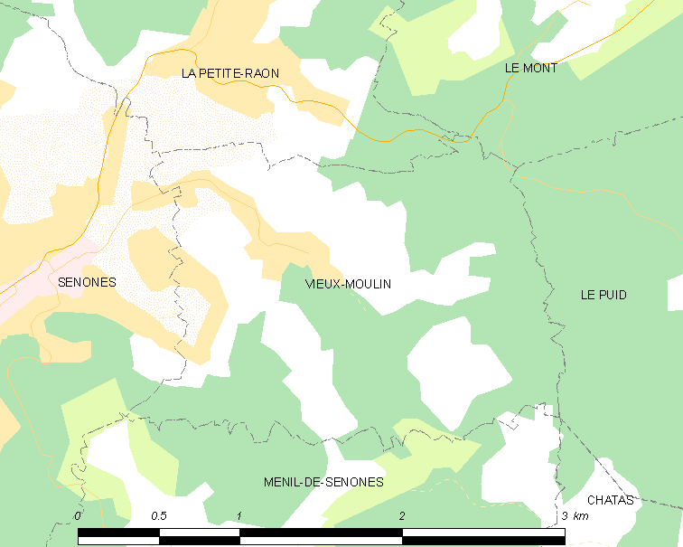 Map of French municipality Vieux-Moulin